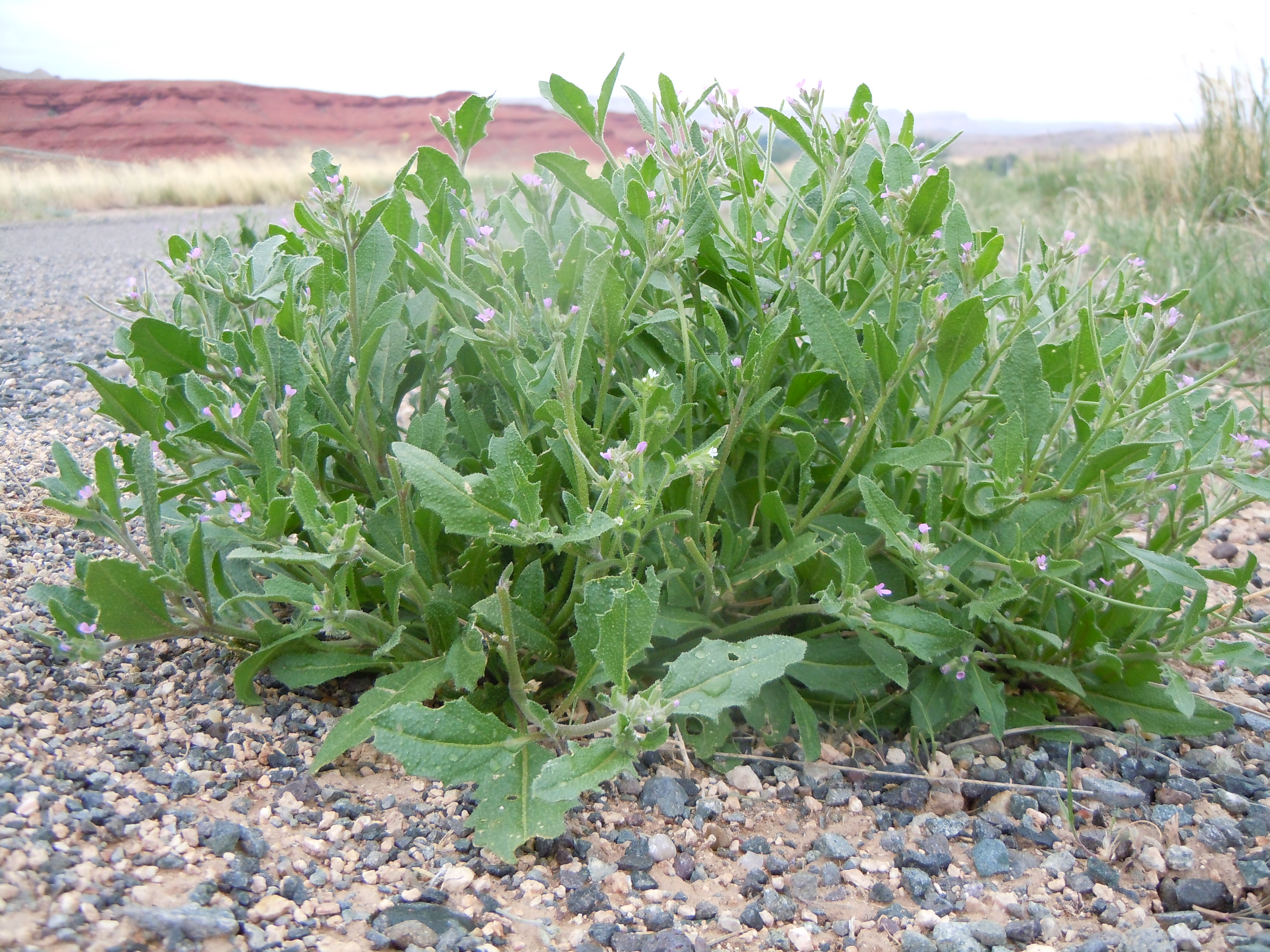 Very common along roadsides and overgrazed rangeland but seemingly never in sagebrush steppe with high native plant cover.